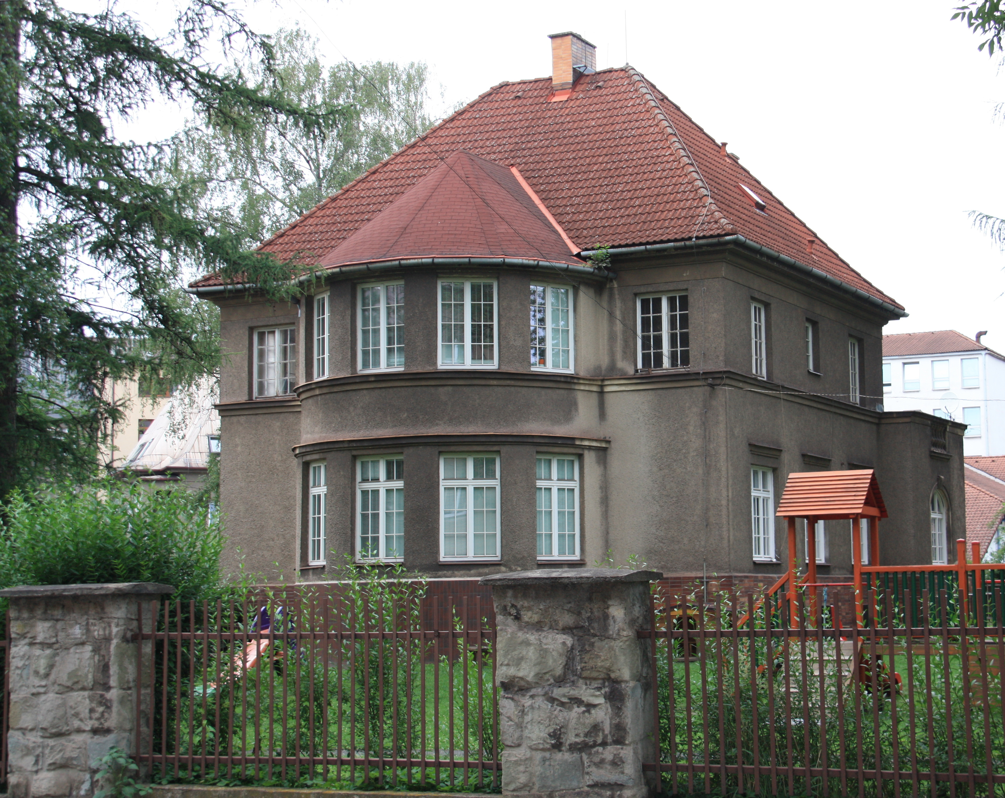 Gottlieb and Stela Fantel's villa in Český Těšín, Karviná District, Moravian-Silesian Region, Czech Republic